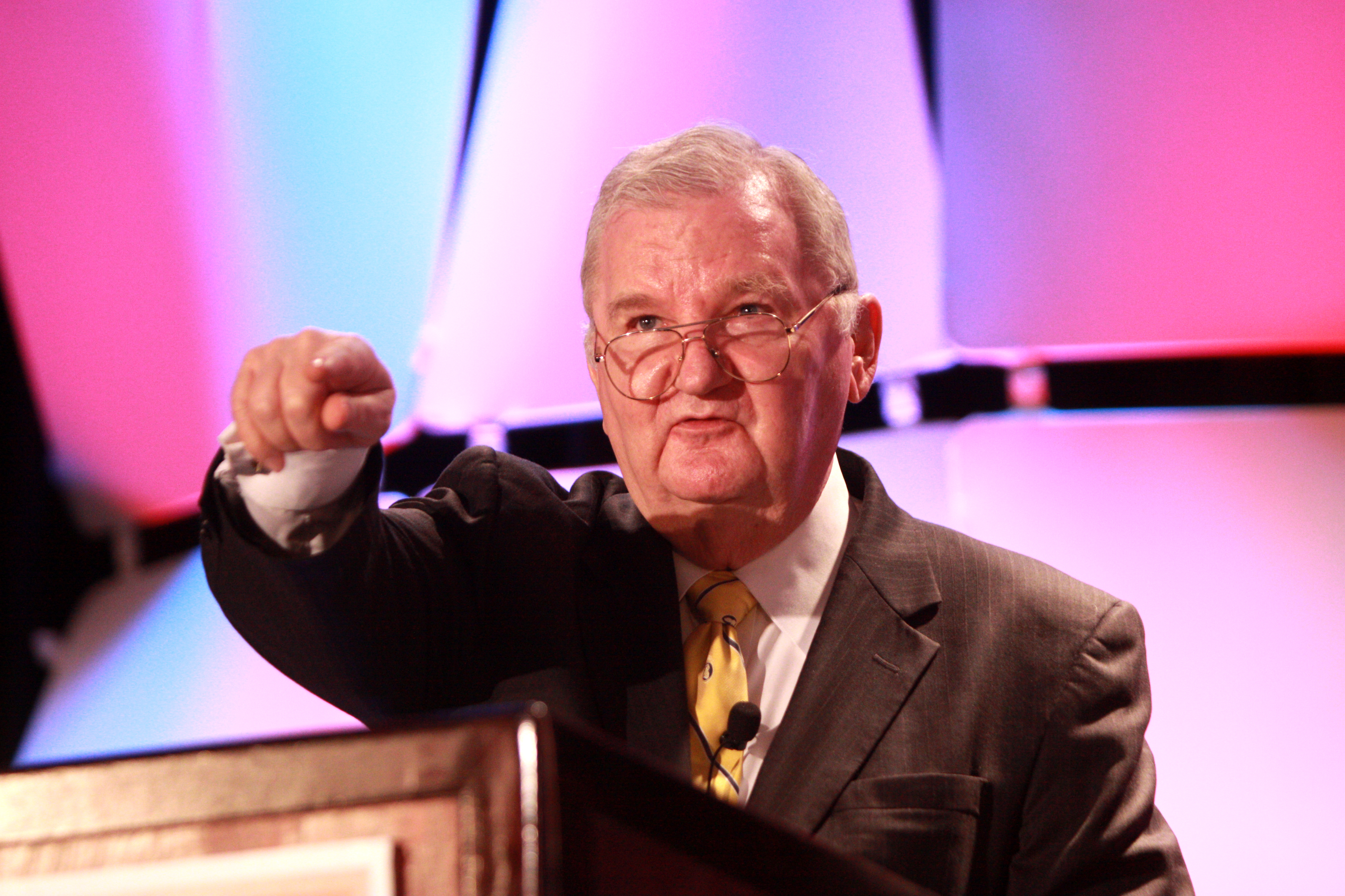 Morton Blackwell speaking at the 2013 Liberty Political Action Conference (LPAC) in Chantilly, Virginia.